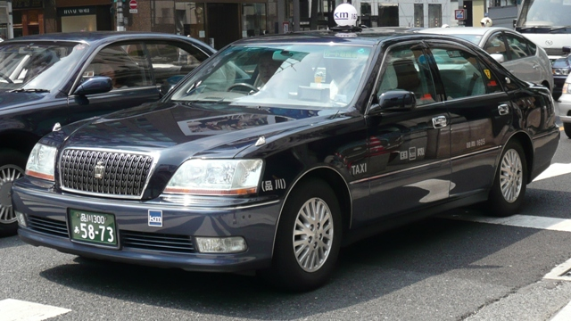 Toyota Crown Majesta taxi.